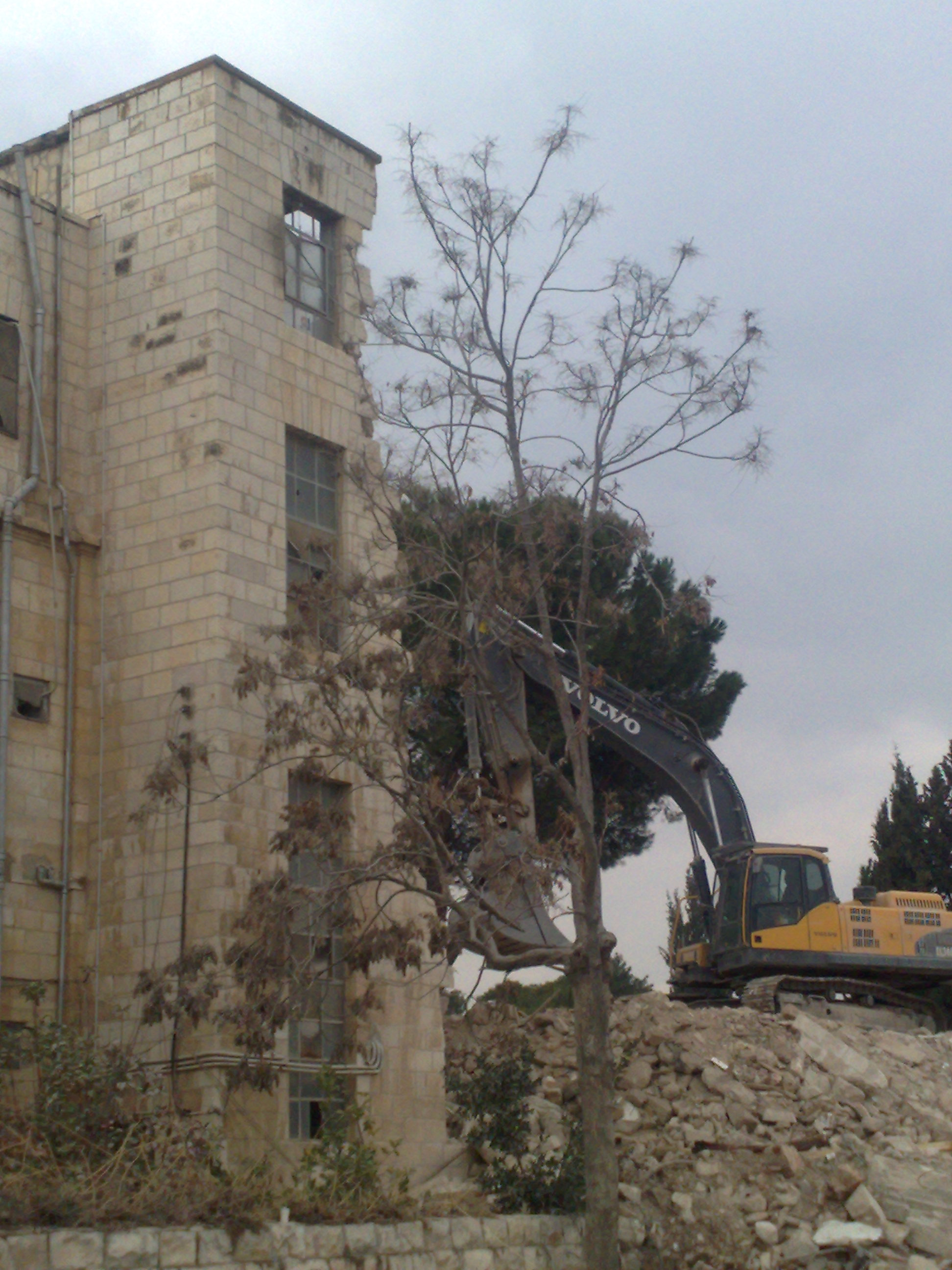 Demolition of Shepherd Hotel in Jerusalem, by Benny and Zvika Ltd